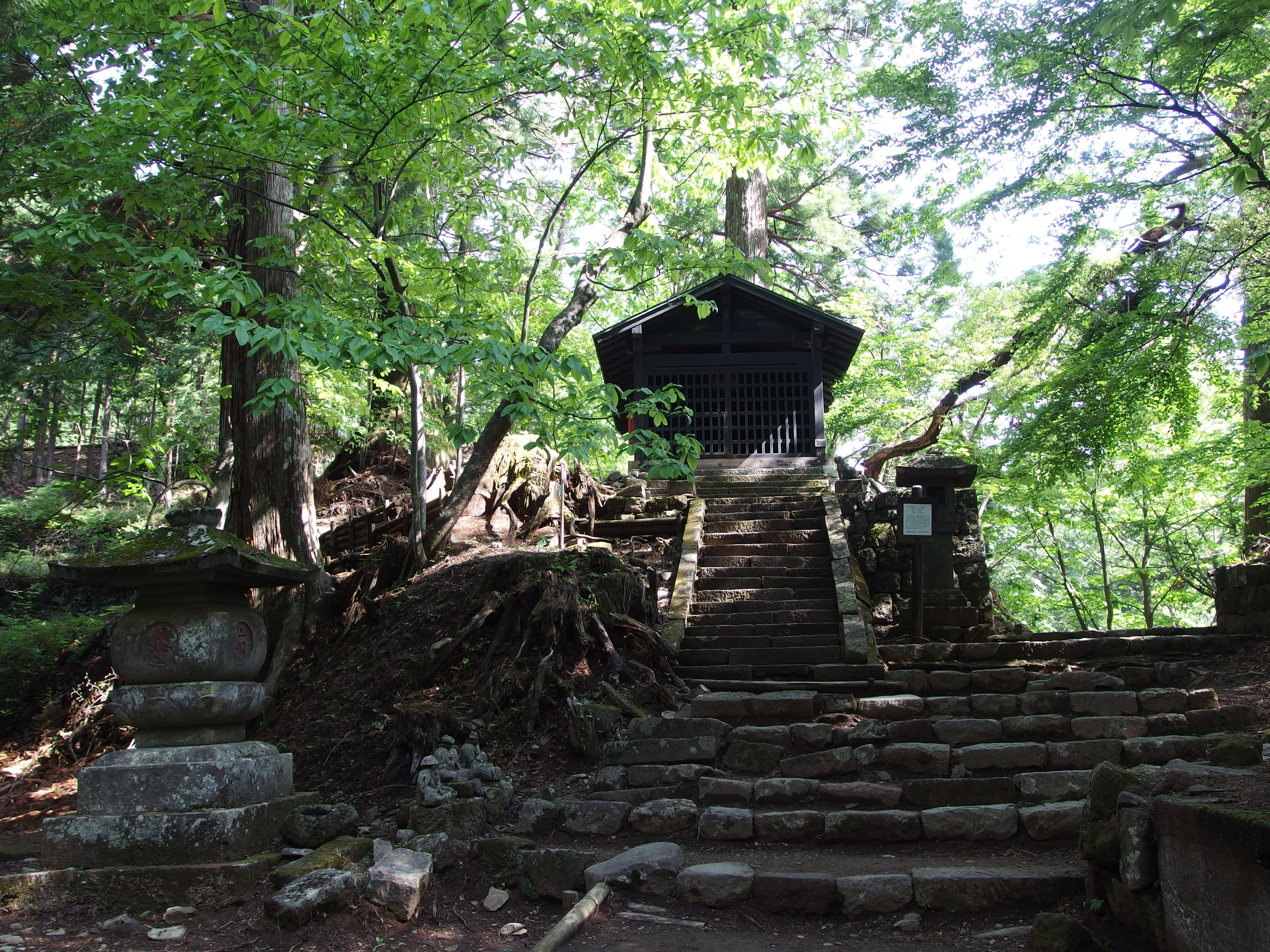 Japan: the Futarasan shrine's Gyōjadō in Nikkō (Tochigi prefecture).